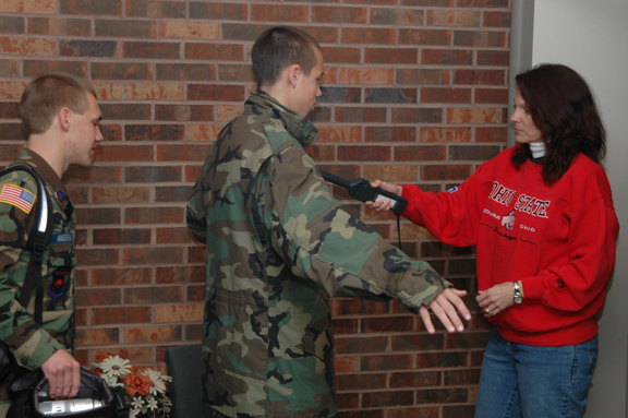 GRISSOM AIR RESERVE BASE, Ind .-- Base Operations personnel screen Ohio Civil Air Patrol cadets prior to an orientation flight on a 434th Air Refueling Wing KC-135R Stratotanker. The orientation flight was a part of the 434th ARW's community education and outreach program. (U.S. Air Force photo/Senior Airman Chris Bolen)